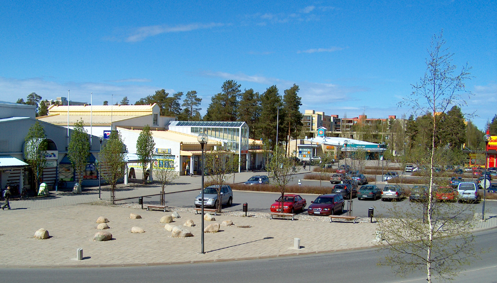 Kaijonharju, Oulu, Finland